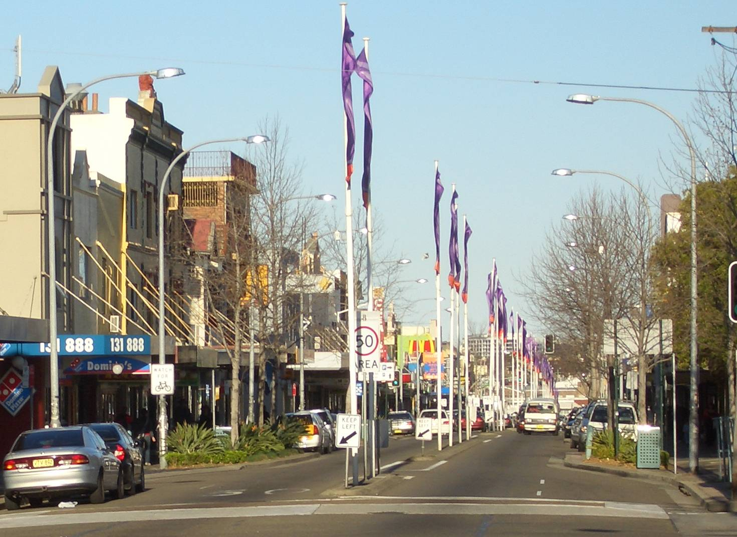 Marrickville, Sydney, Australia.